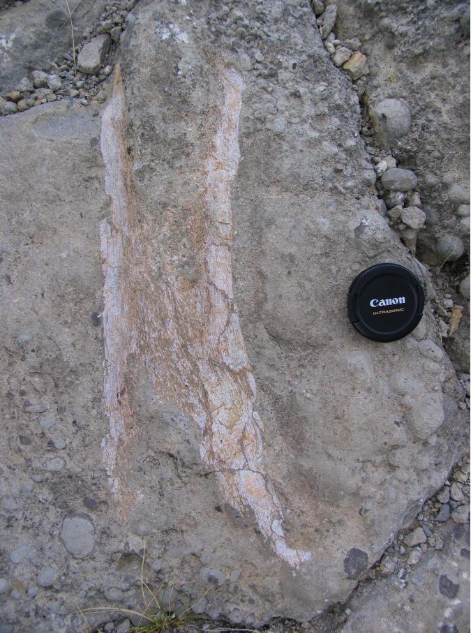 Photo of an indeterminate dinosaur bone in the Tremp Formation. courtesy: M. Wiemer